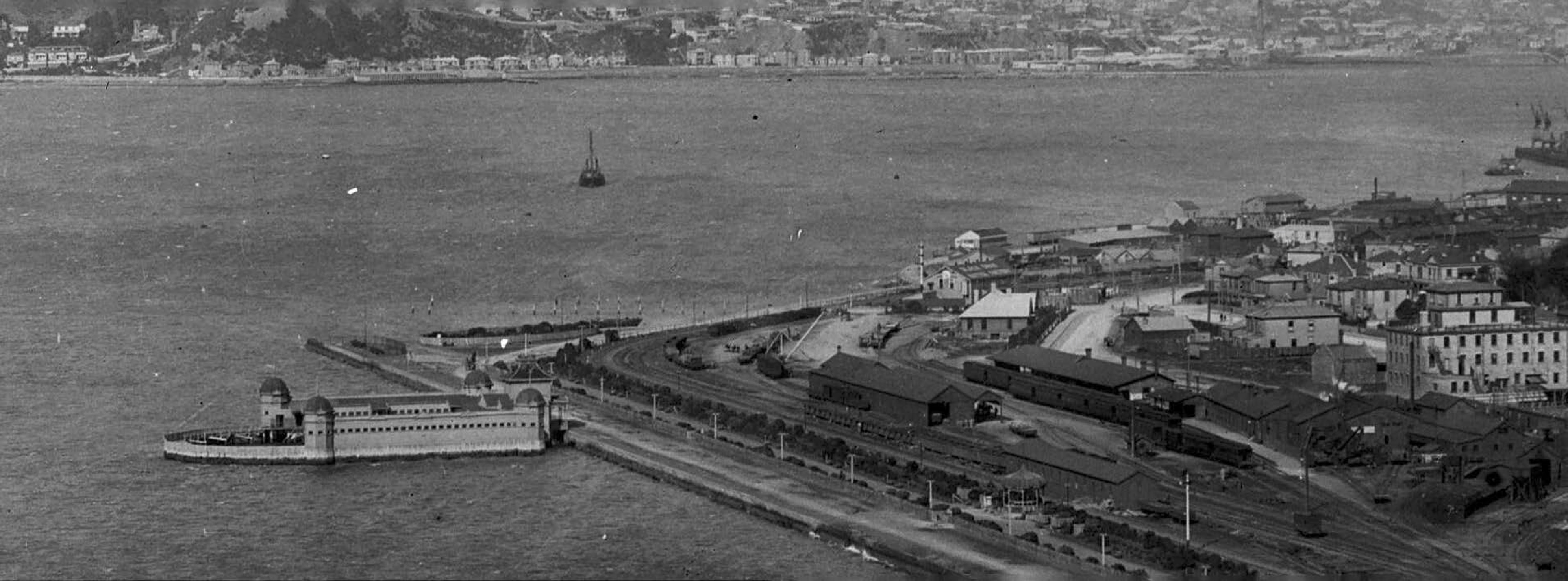 1905 Pipitea Point. Thorndon Baths, Thorndon Esplanade, Thorndon Railway Station (terminus of Main Trunk Line, Davis Street)